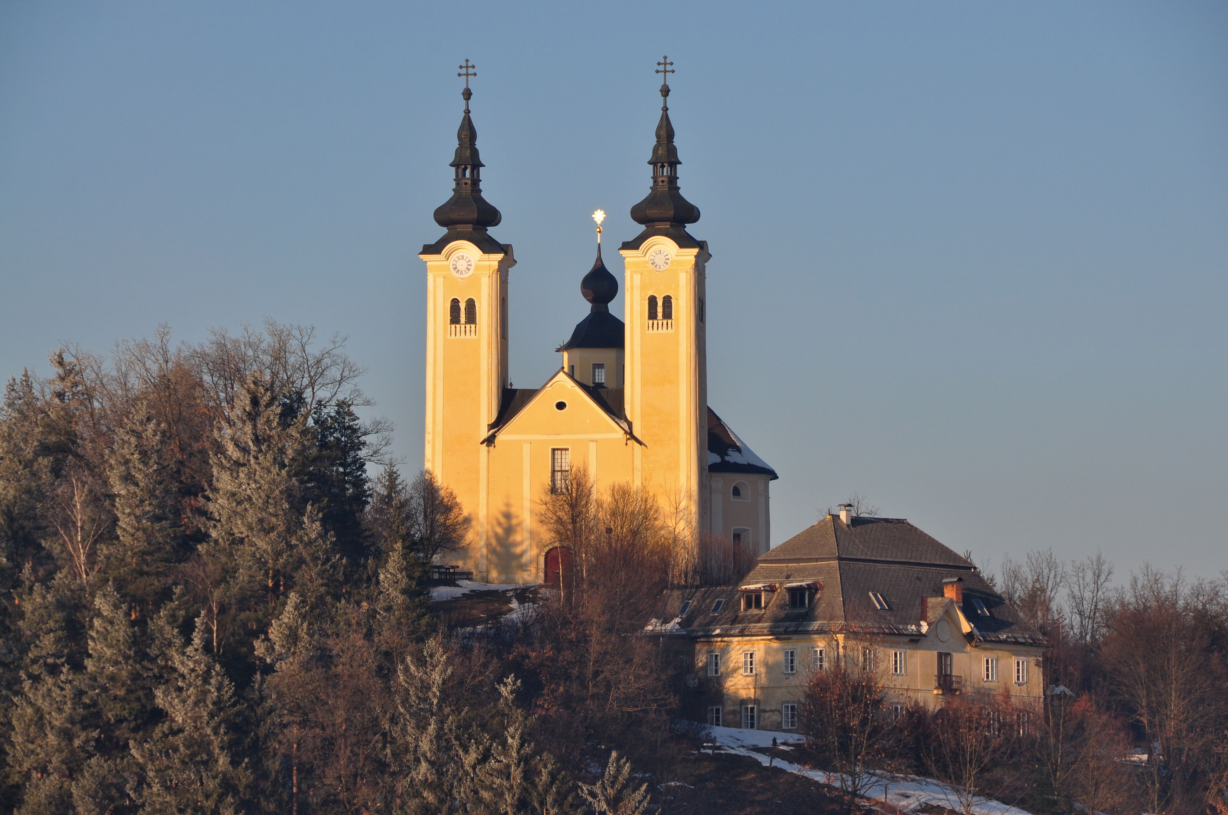 Pilgrimage church Holy Grave (Heiligengrab) at Schilterndorf, municipality Bleiburg, district Voelkermarkt, Carinthia / Austria / EU